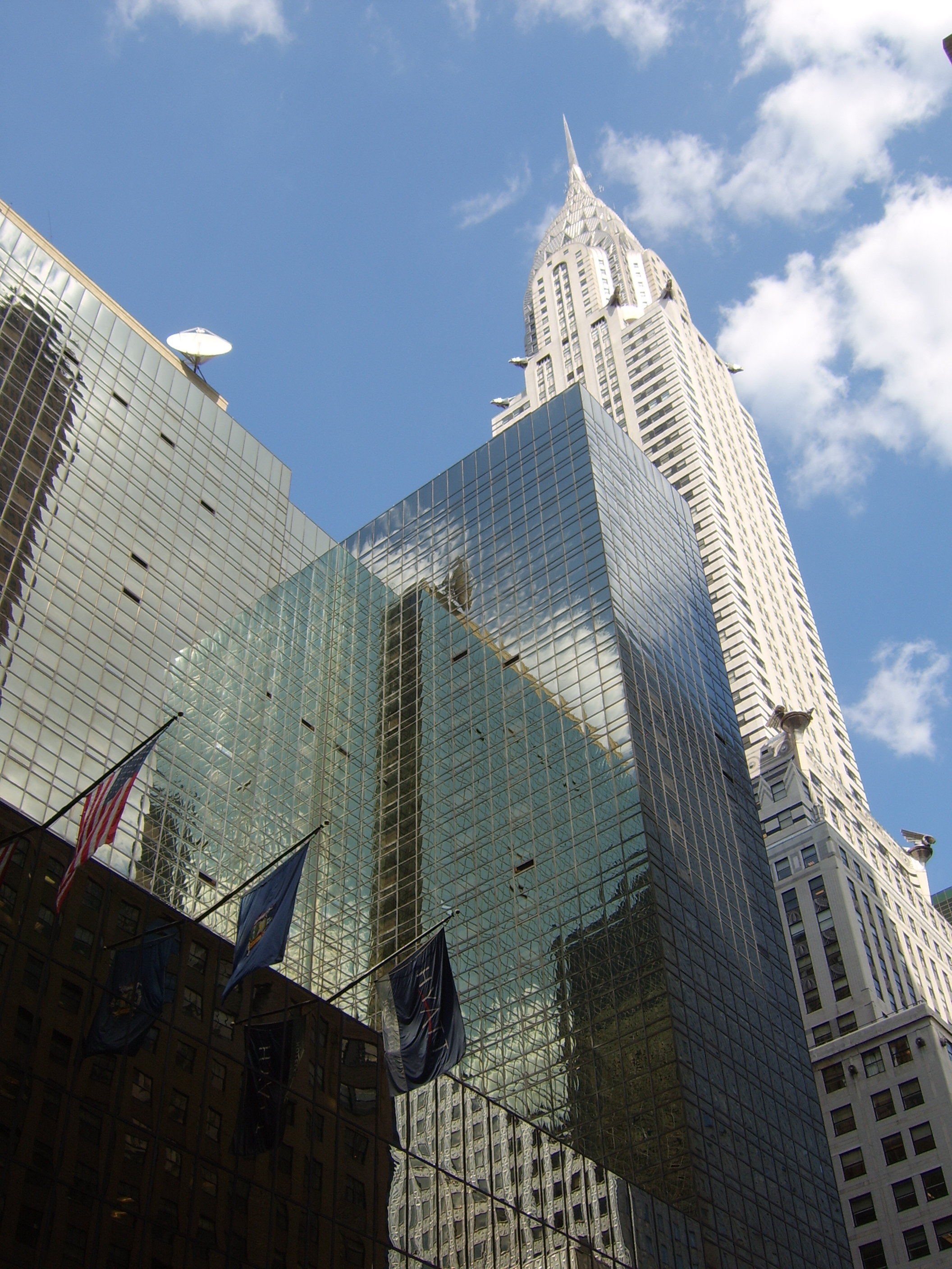 Chrysler Building